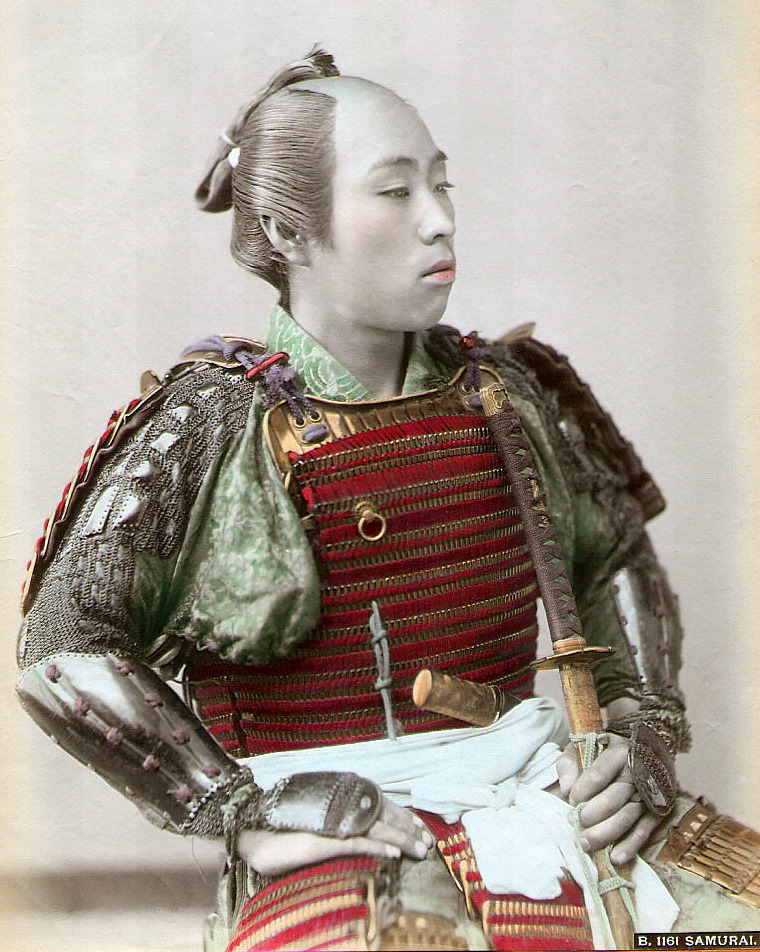 Japanese Samurai - hand colored albumen